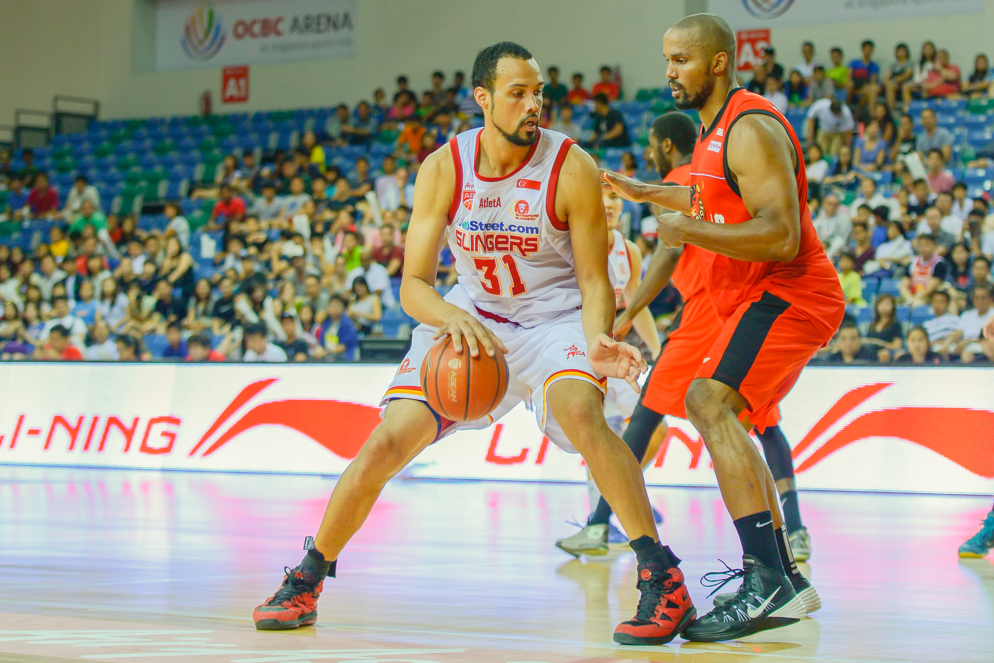 Kyle Jeffers (Singapore Slingers) takes on Ellis Christian (Indonesia Warriors) in a ABL match on 10 August 2014.